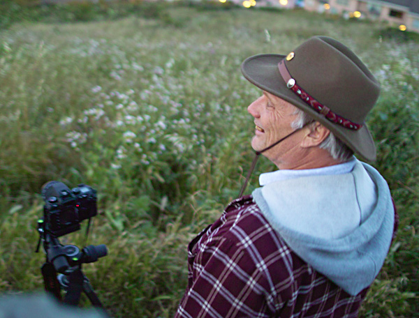 Richard B. Merrill, 1949–2008, inventor of Foveon X3 image sensor.